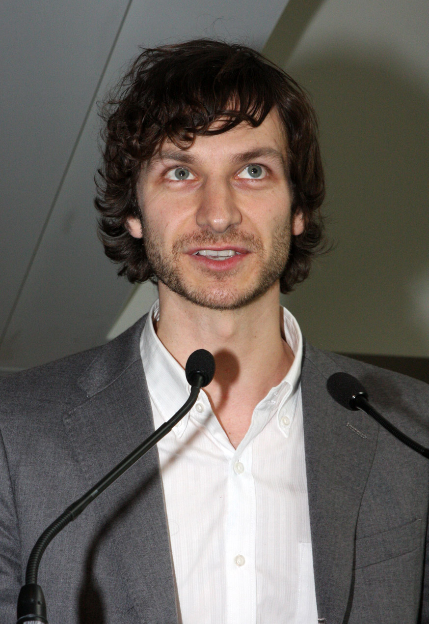 Gotye at the ARIA Chart Awards: Red Carpet; Sydney, Australia